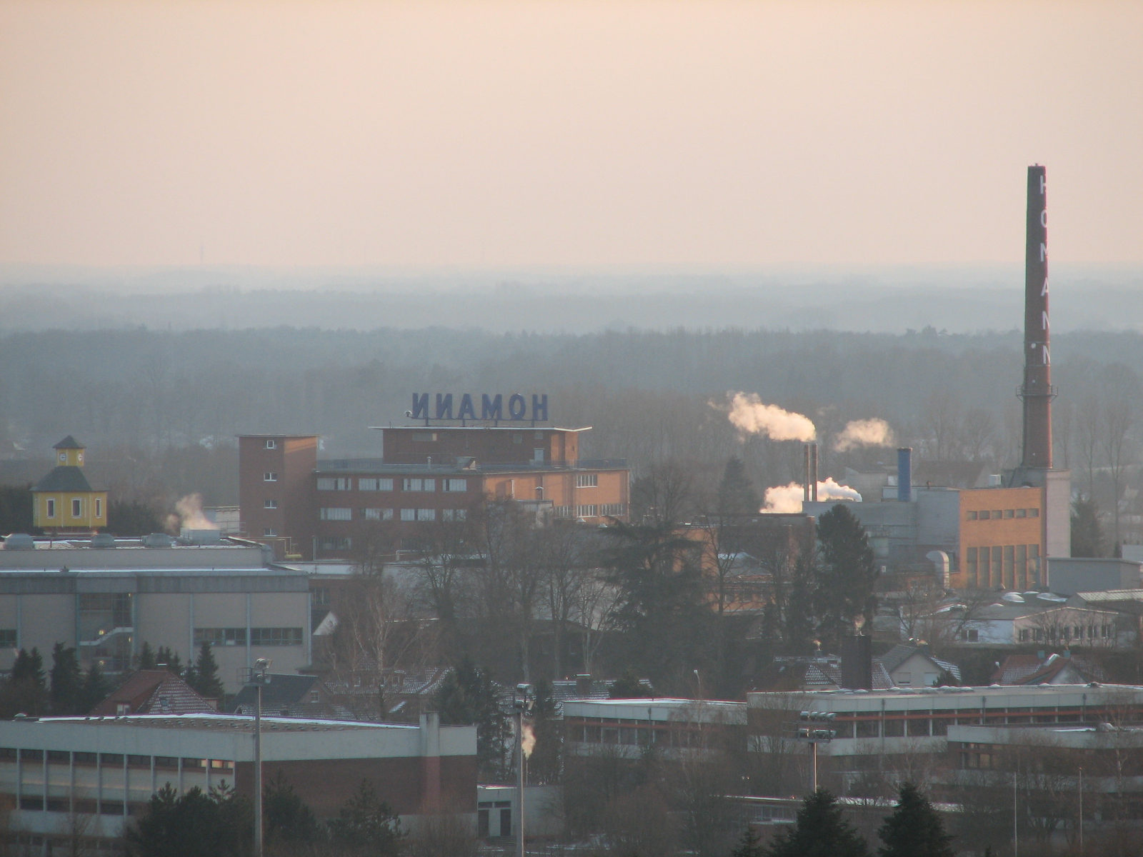 Dissen a.T.W., Lebensmittelindustrie (Homann)